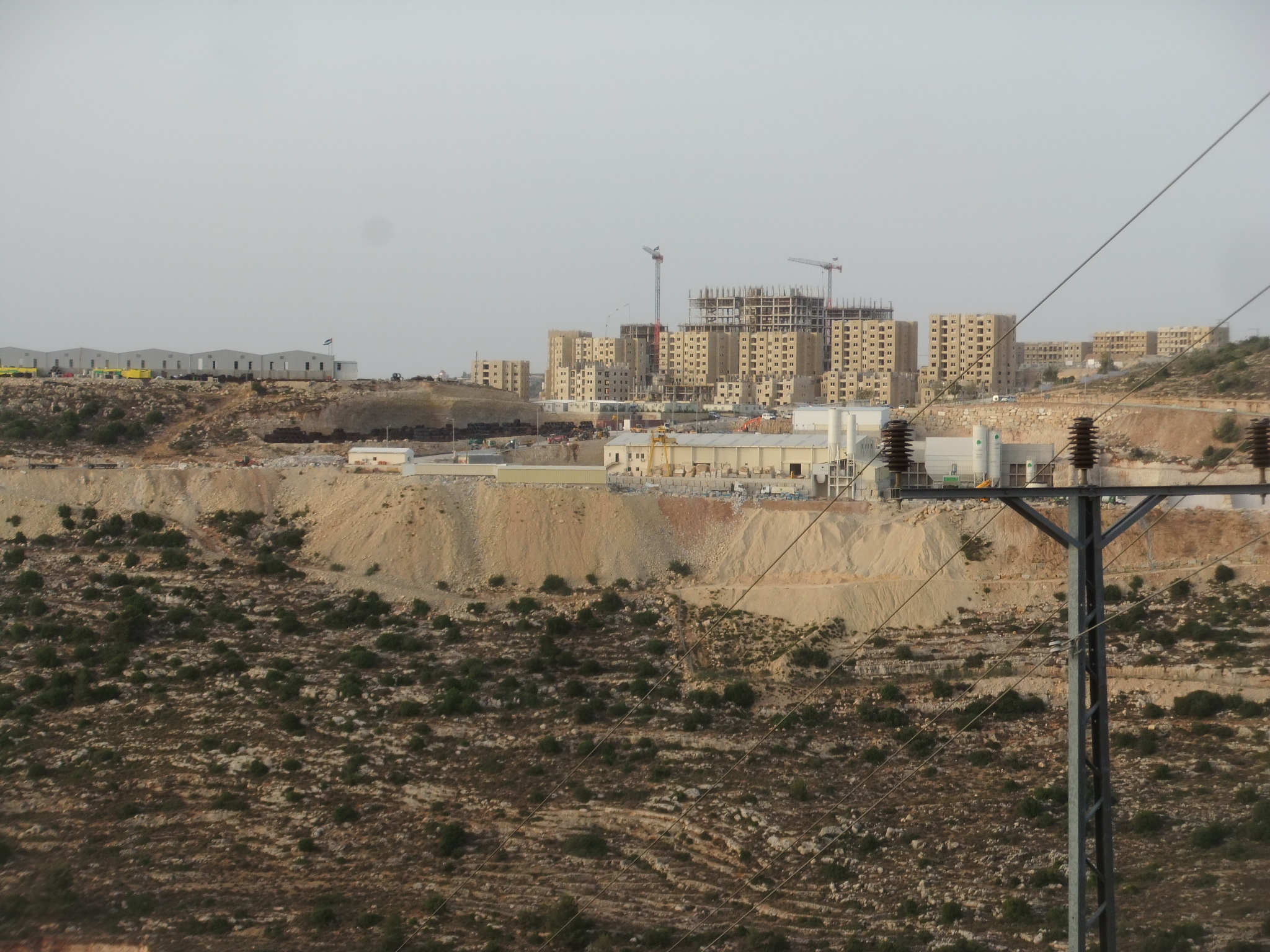 Rawabi from Ateret